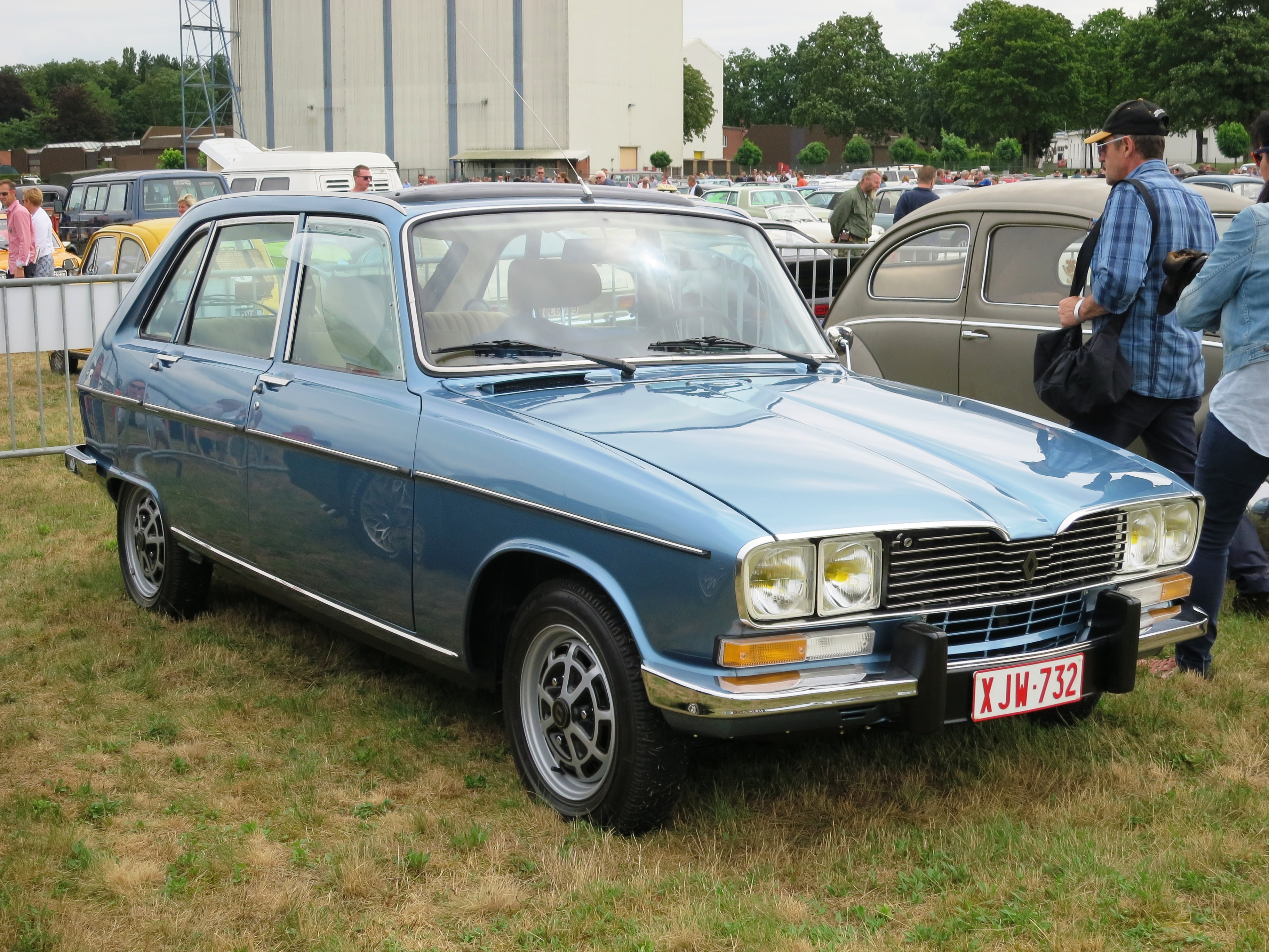 Renault 16TX in Belgium